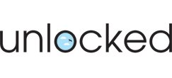 The Red Room Company's Unlocked program sees contemporary poets run workshops with inmates in correctional centres